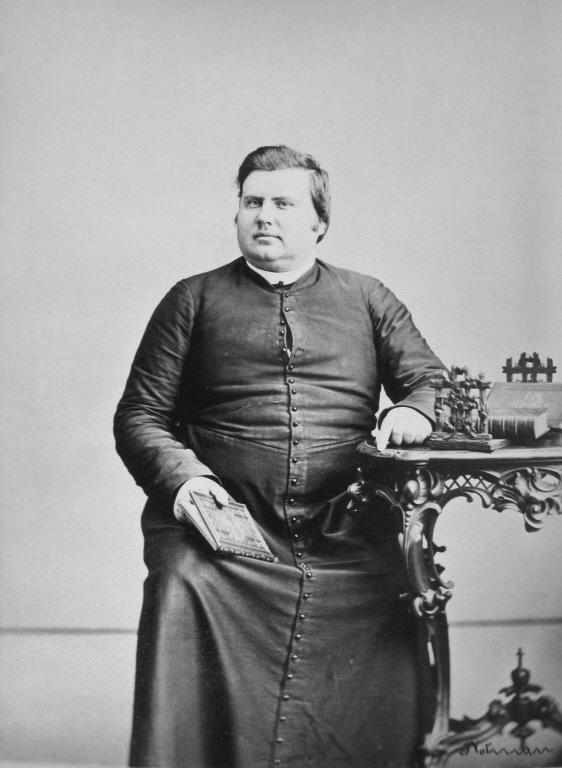 Photograph, Reverend A. Labelle, Montreal, QC, 1864, William Notman (1826-1891), Silver salts on paper mounted on paper - Albumen process - 8 x 5 cm